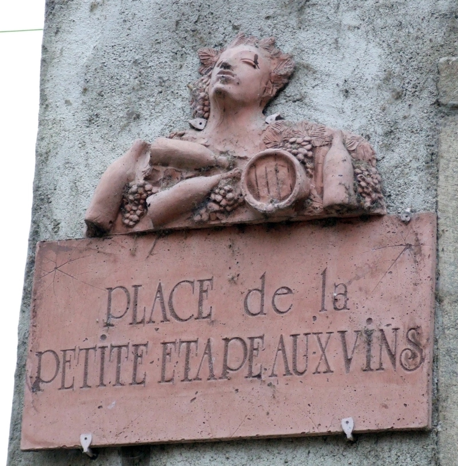 Noyers-sur-Serein, Yonne, Burgundy, FRANCE